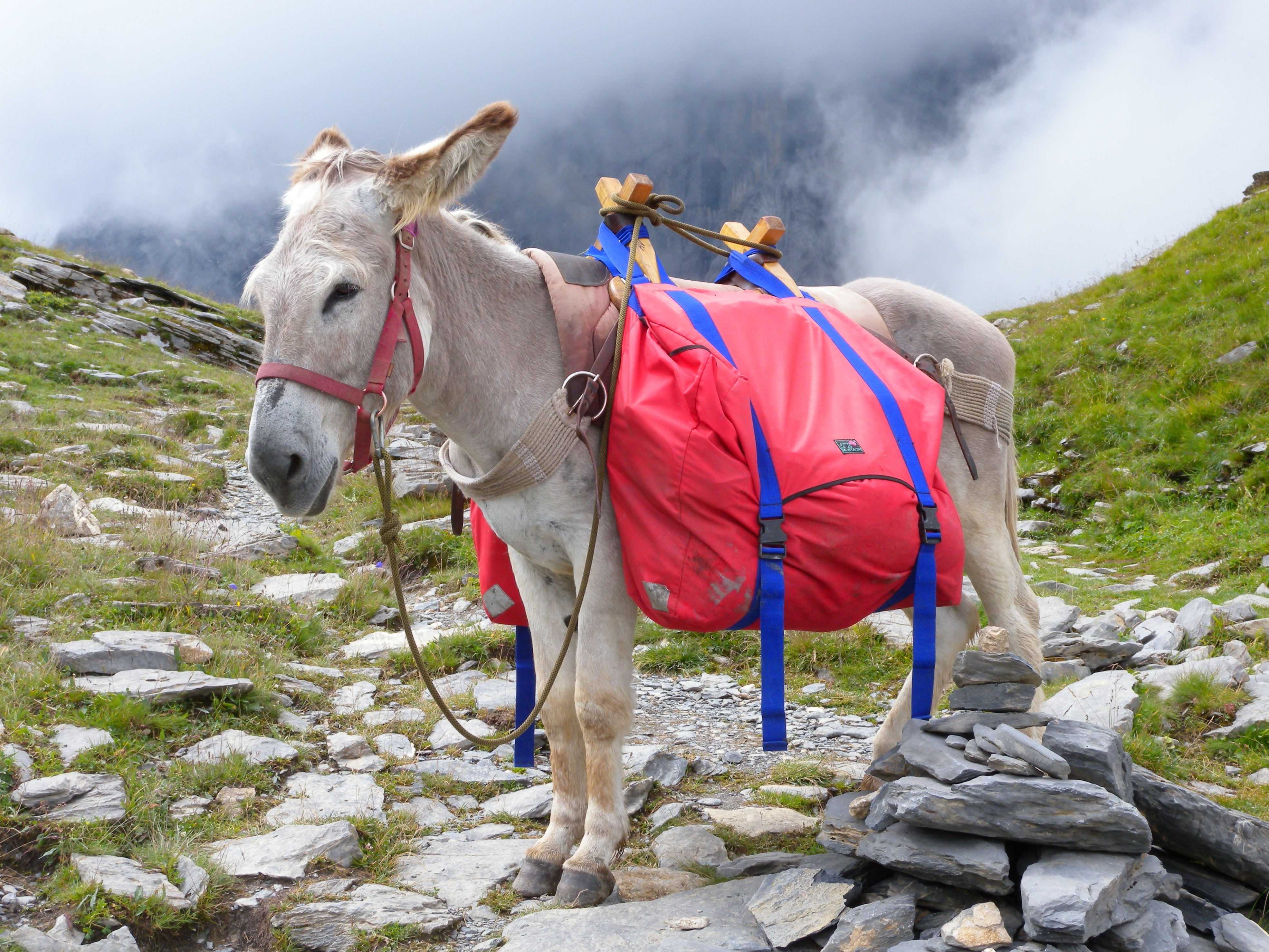 Pasture of Anterne, Sixt fer à cheval